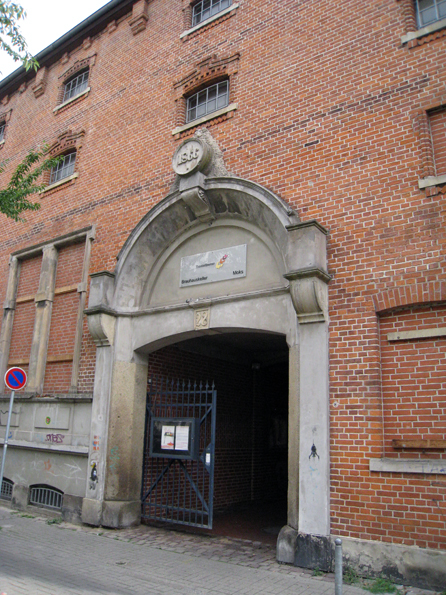 Former St. Pauli-Brauerei (“St. Pauli Brewery”) in the Bleicherstraße in Bremen, Germany. Established in 1857 by Lüder Rutenberg and bought in 1918 by Beck & Co..